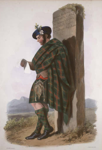 "Logan". A plate illustrated by R. R. McIan, from James Logan's The Clans of the Scottish Highlands, published in 1845.